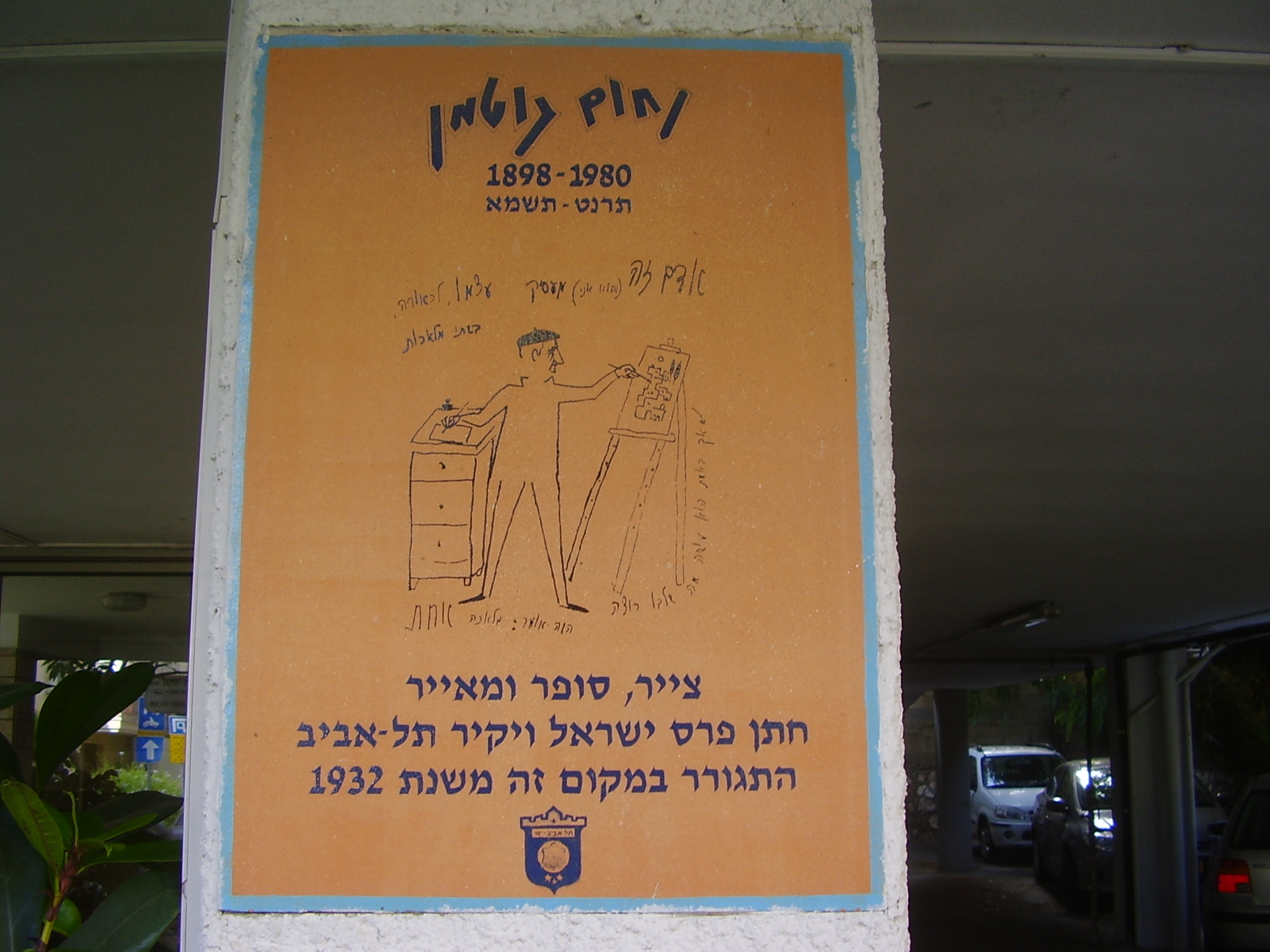 memorial plaque on nahum gutman house in tel aviv